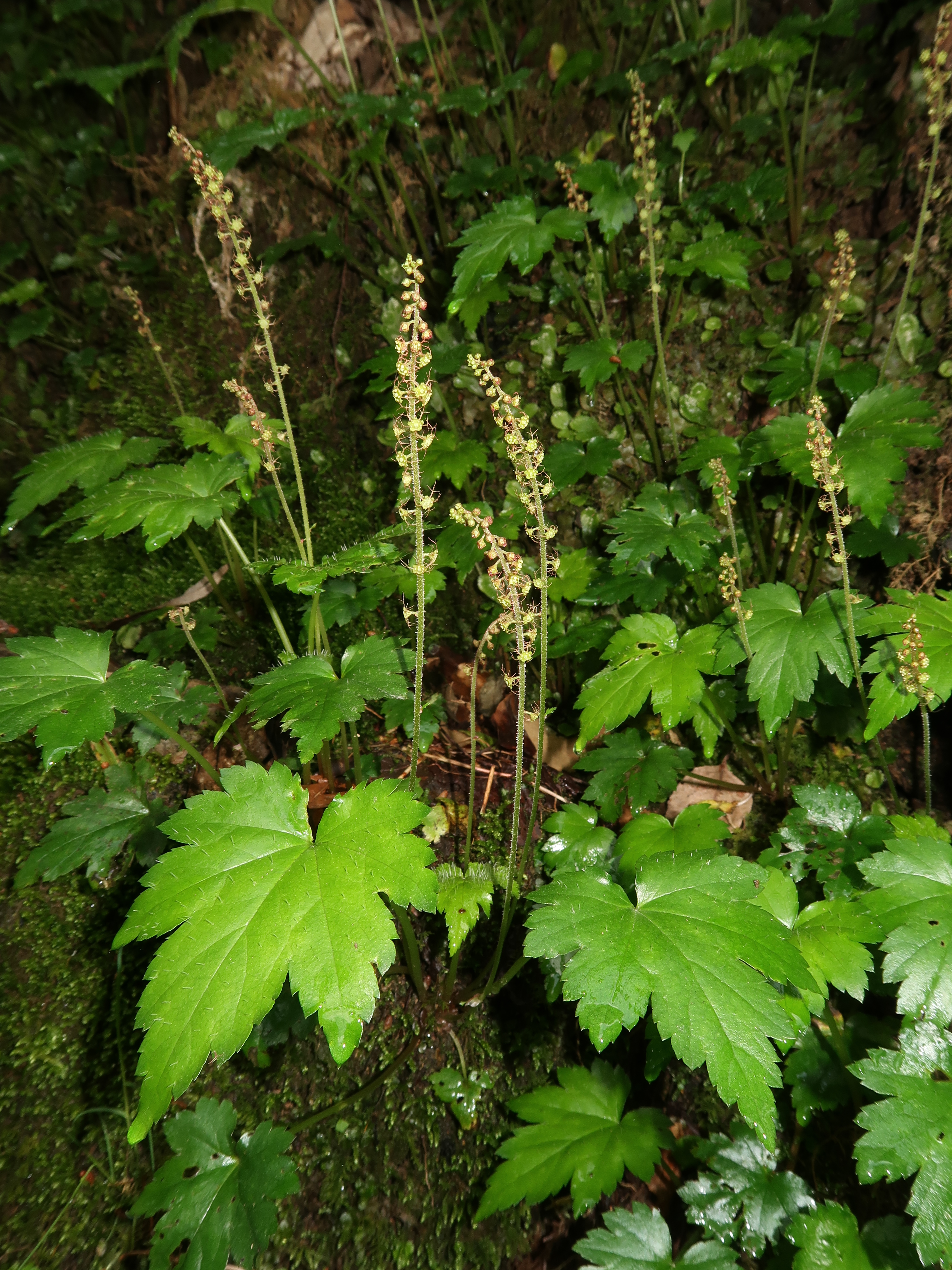 Mitella acerina, Reinan area, Fukui pref., Japan